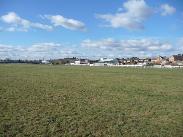 Stratford upon Avon racecourse Part of the course, viewed from the interior.